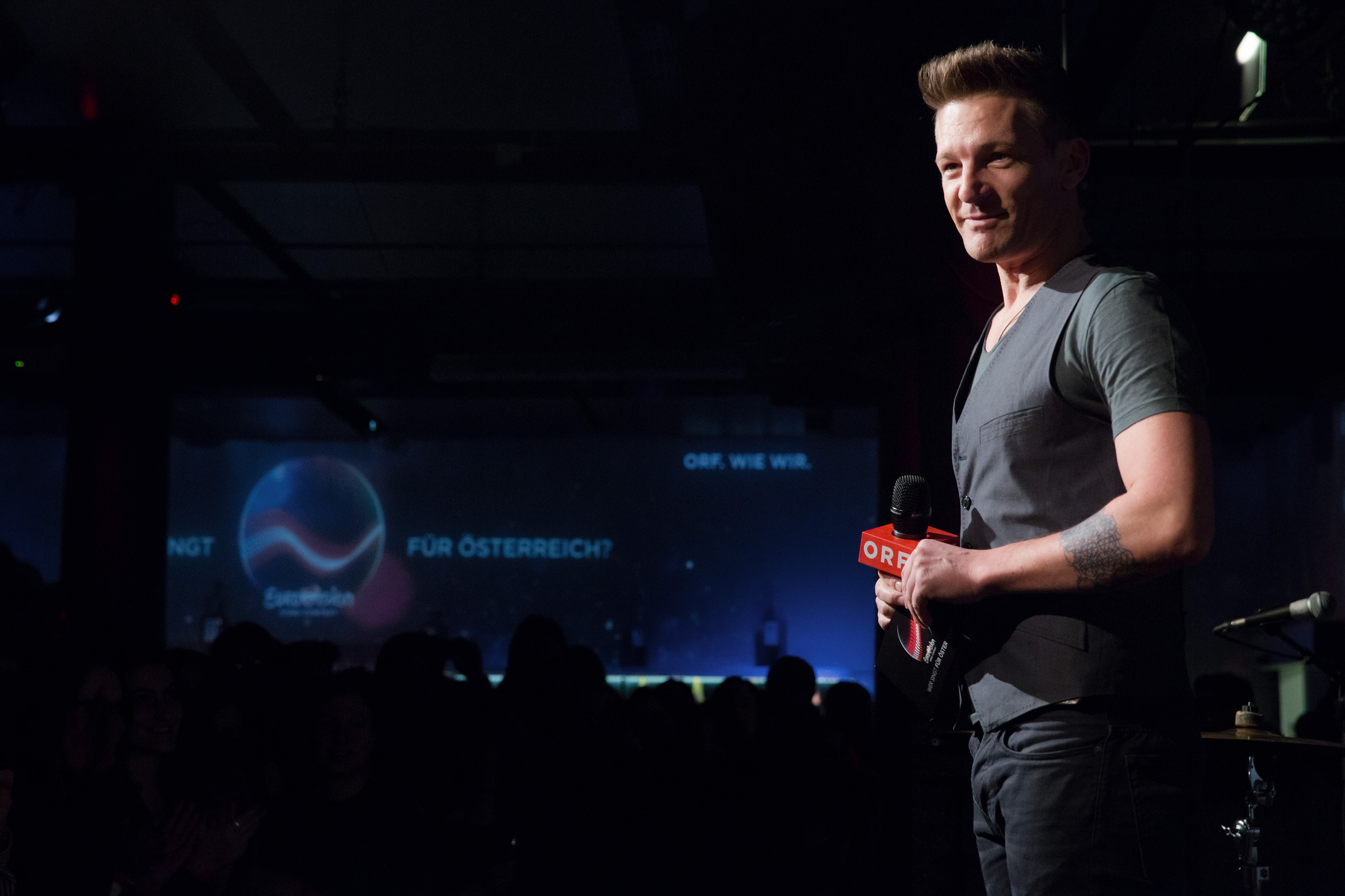 Andi Knoll presenting the concert of the Austrian candidates for participating at the Eurovision Song Contest 2015; Chaya Fuera, Vienna,Austria.